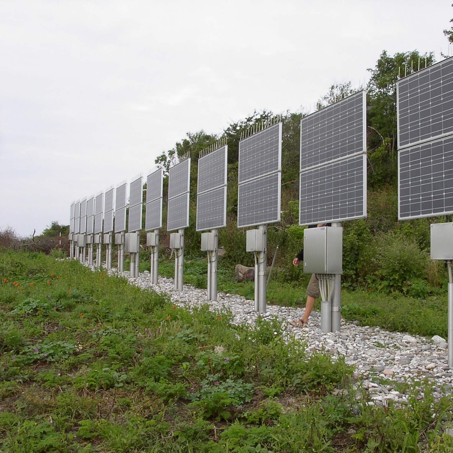 Solar panels for the lighthouse on Hjelm Island, Denmark